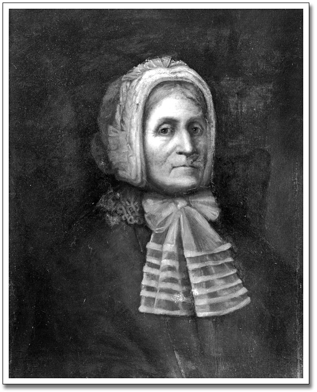 1904 Painting by Mildred Peel, owned by the Government of Ontario Art Collection, 619796